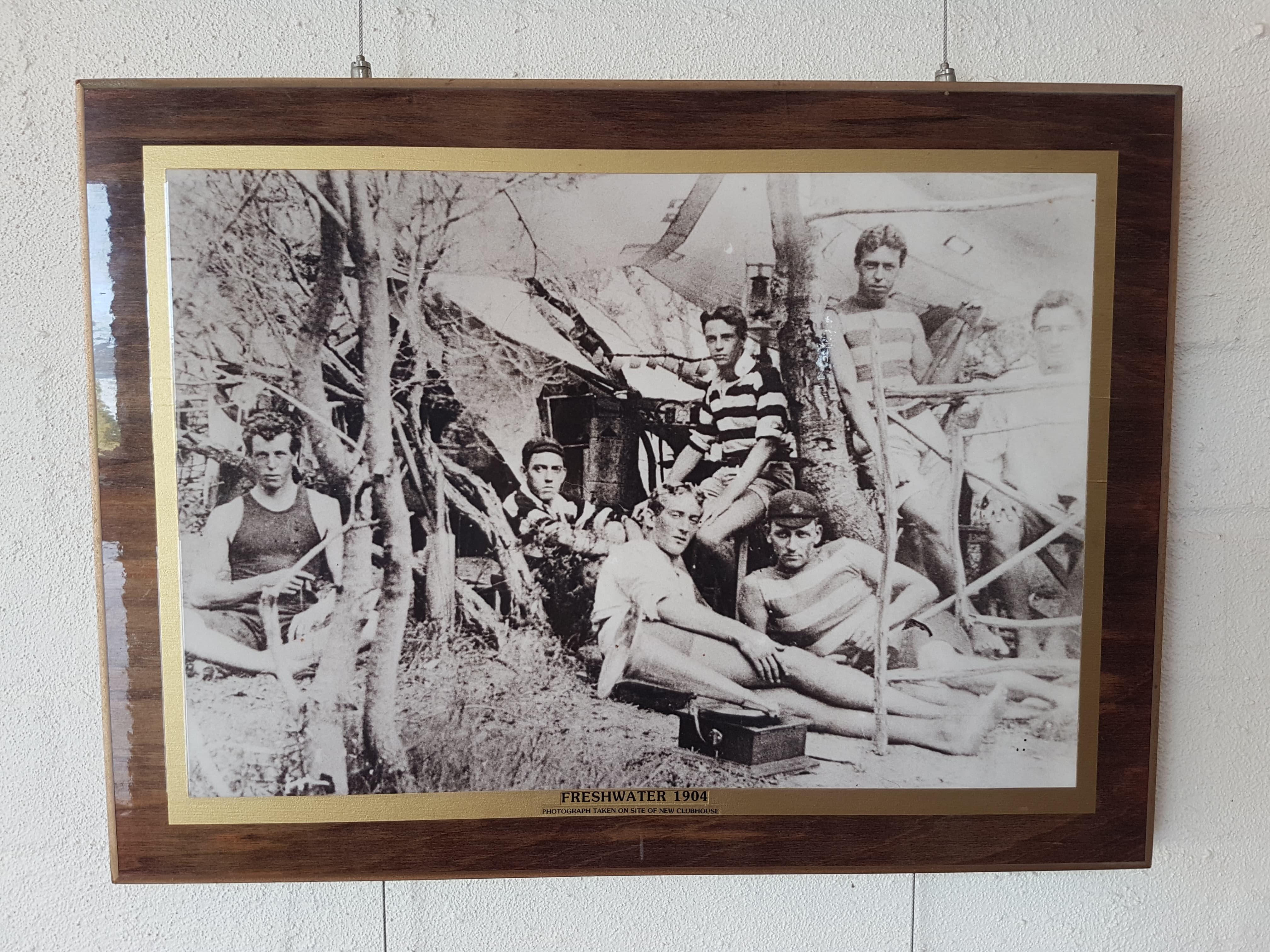 Taken of photograph hung at freshwater surf club (pictured: the first clubhouse)